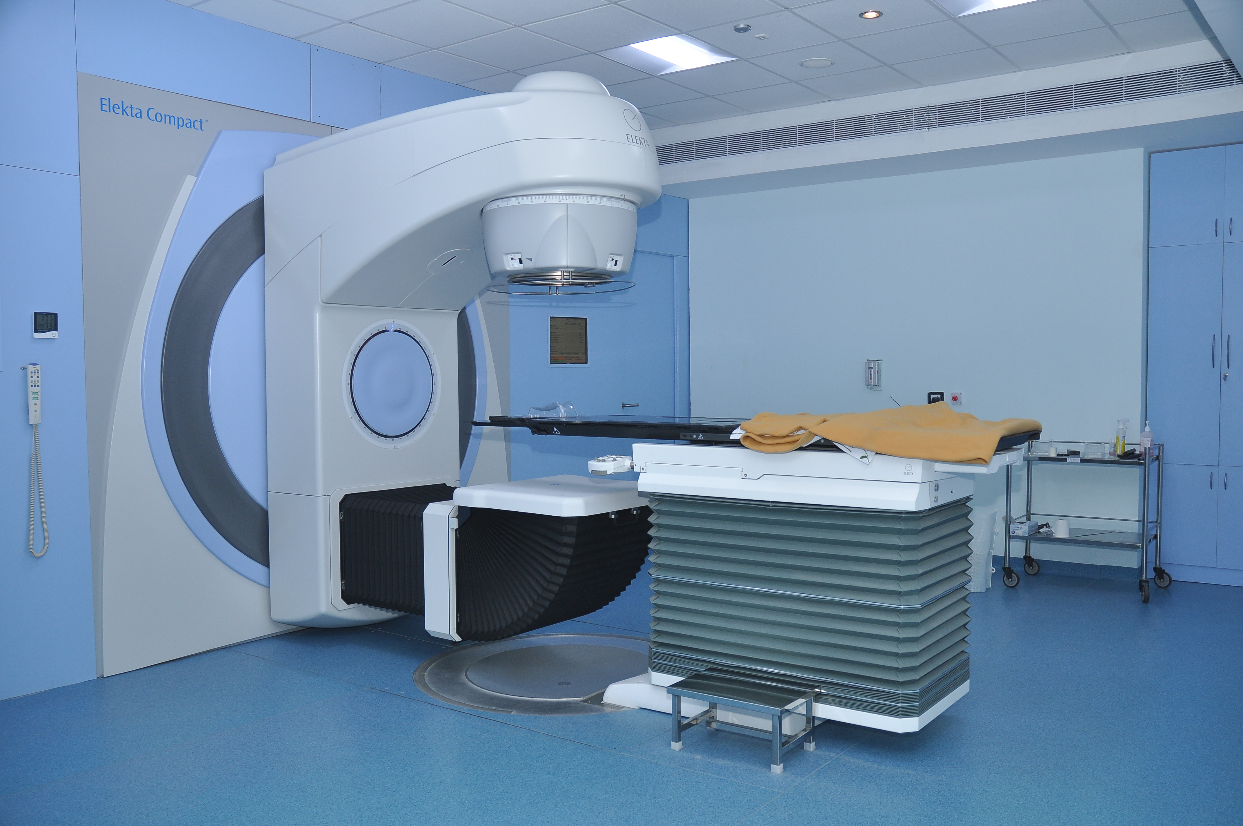 Linear Accelerator - Elekta Compact model at Narayana Multispeciality Hospital, Mysore. Equipment is used for Radiotherapy